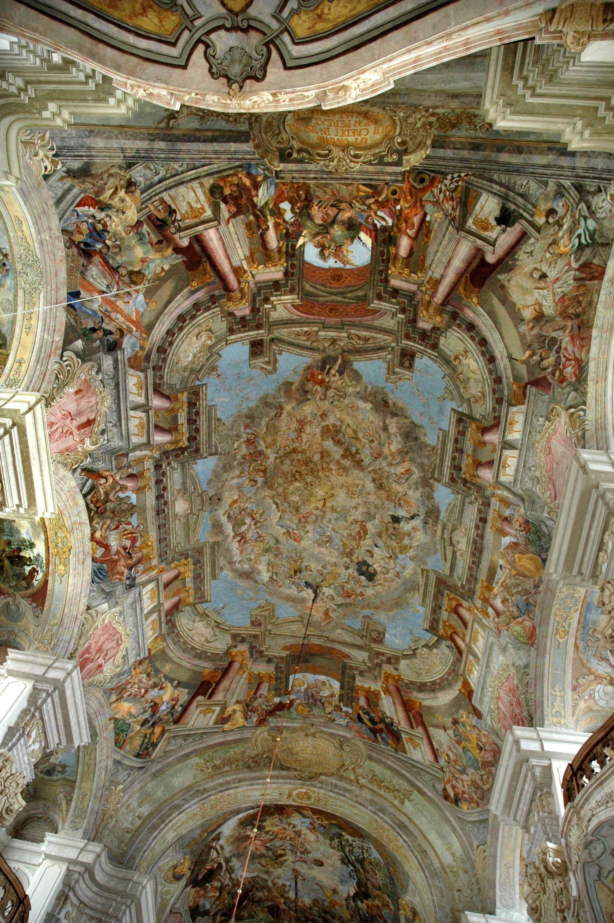 Johann Kuben art in Feast of the Cross church, Poland Brzeg.